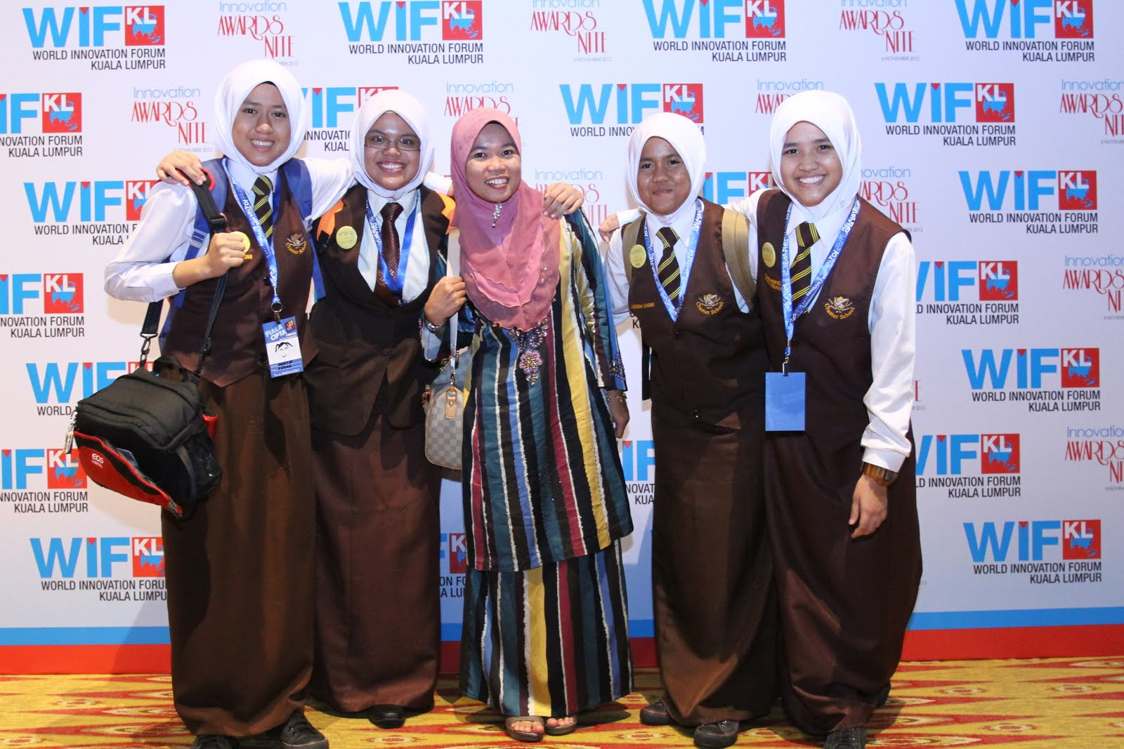 Photograph of World Innovation Forum - KL 2012 participants in front of banner World Innovation Forum - Kuala Lumpur